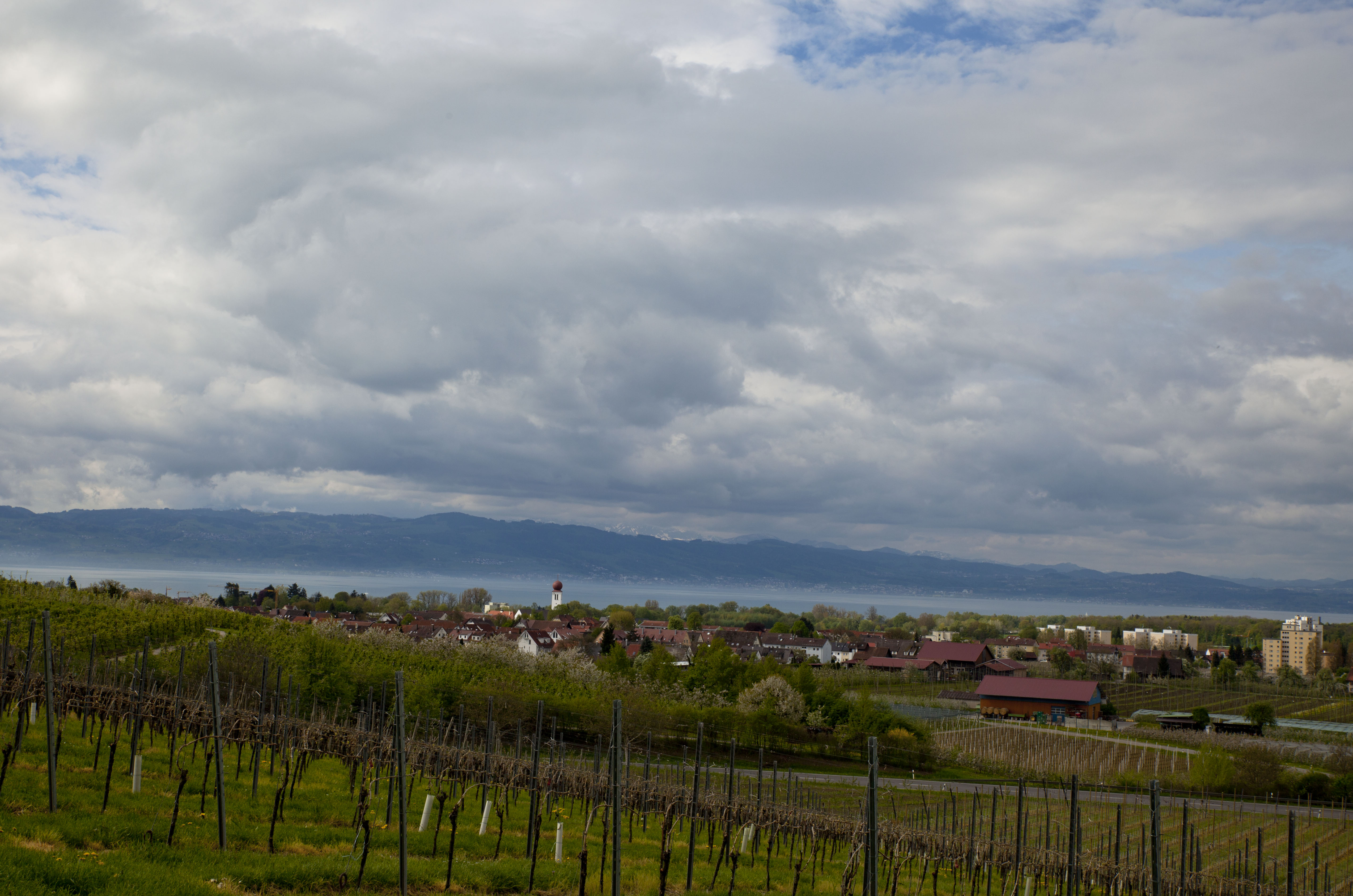 View over Kressbronn